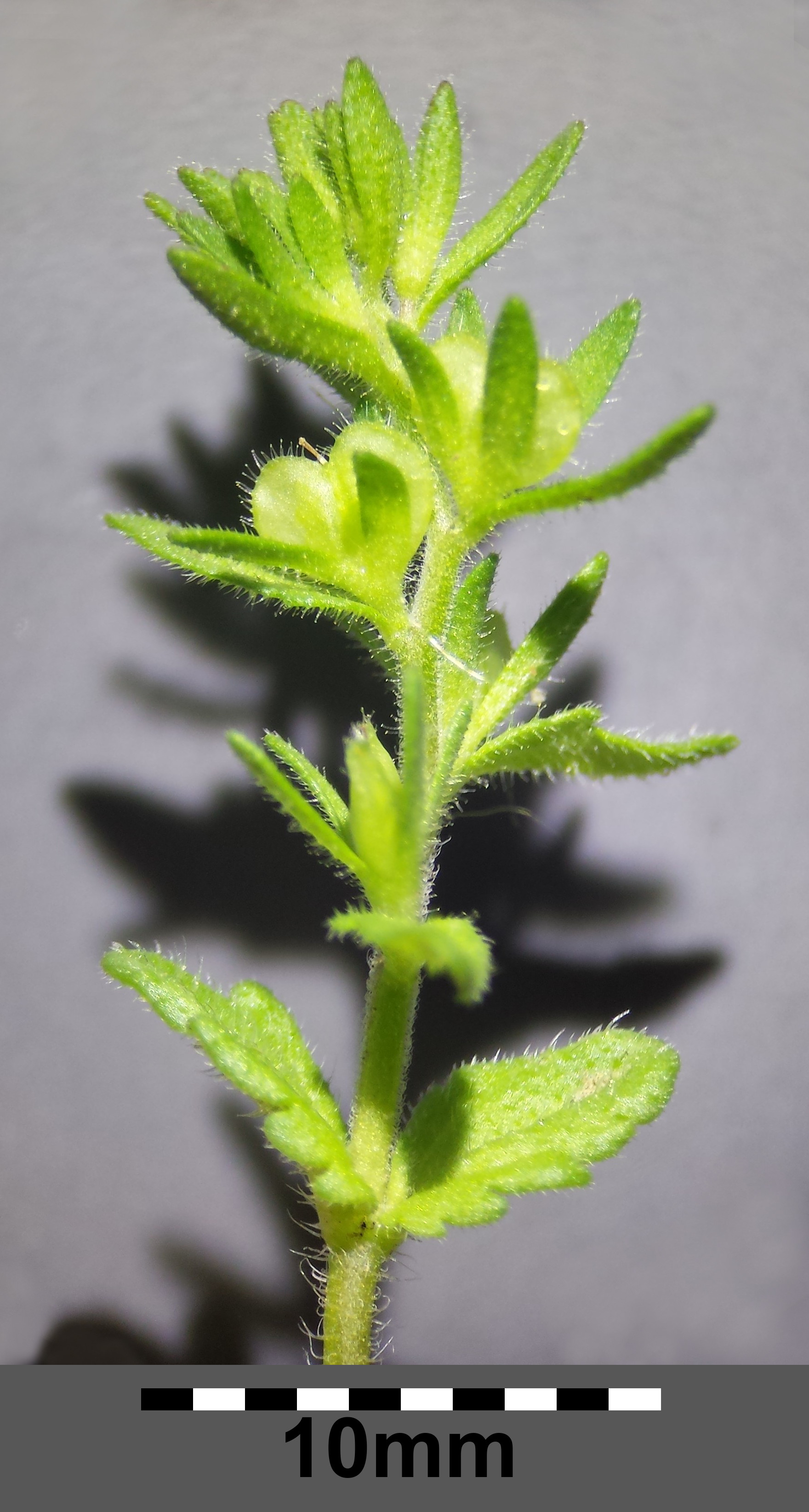 Infructescence Taxonym: Veronica arvensis ss Fischer et al. EfÖLS 2008 ISBN 978-3-85474-187-9 Location: near Niederhollabrunn, district Korneuburg, Lower Austria - ca. 350 m a.s.l. Habitat: wineyard